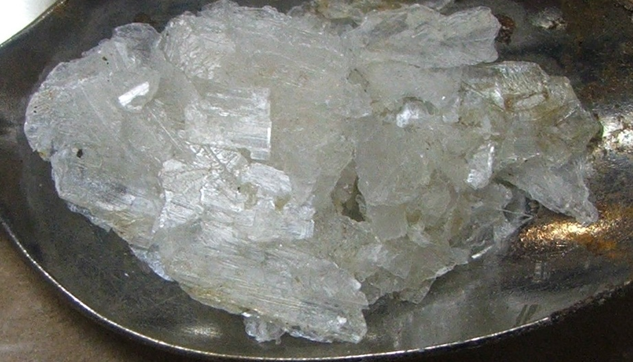 Zinc acetate crystallized by slow evaporation